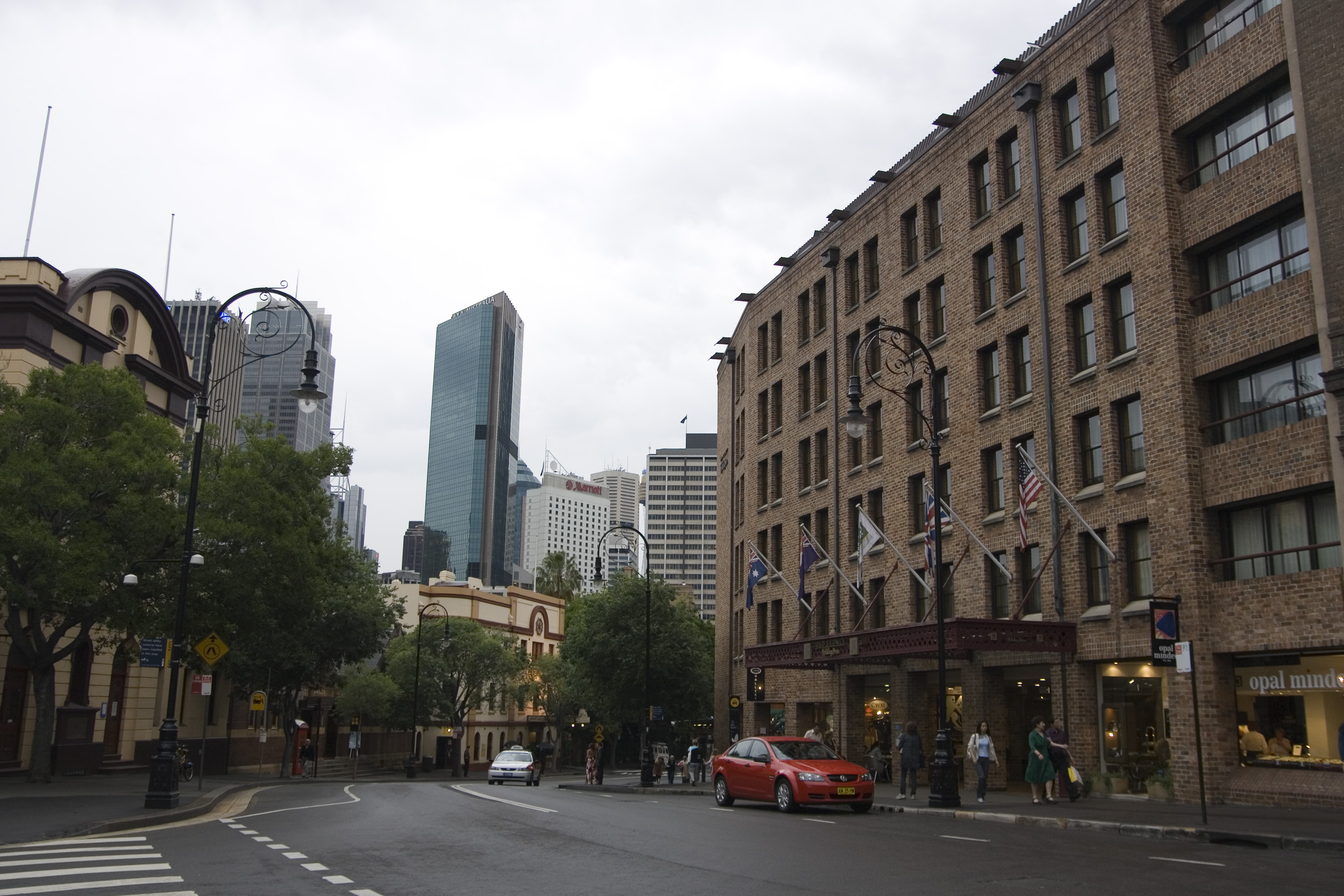 The Rocks NSW 2000, Australia